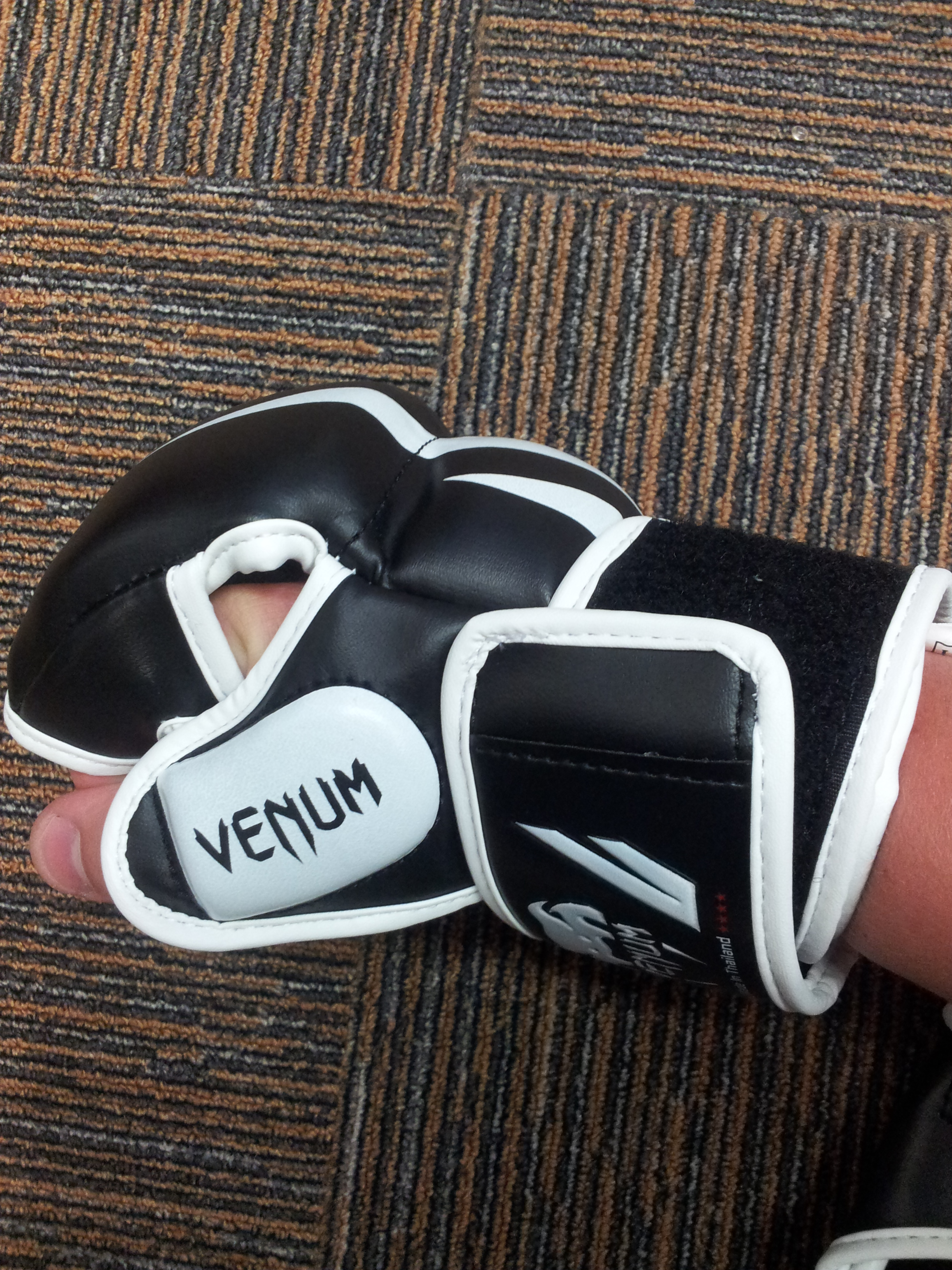 MMA gloves